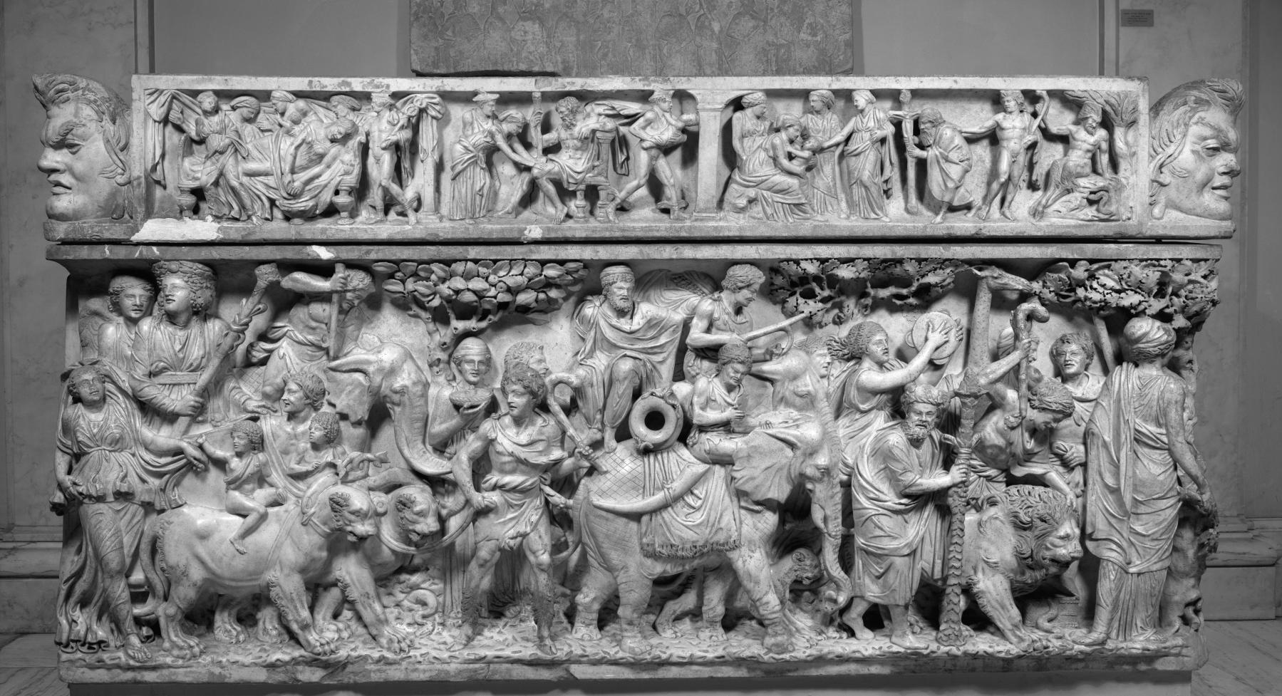 The triumphal march of Dionysus (or Bacchus, as he was generally known in Rome) through the lands of India was equated in Roman thought with the triumph of the deceased over death. At the left, Dionysus rides in a chariot pulled by panthers. Preceding him is a procession of his followers and exotic animals, including lions, elephants, and even a giraffe. A bird's nest is concealed in the tree at the far right; on the same tree a snake is pursuing a lizard. Many of the animals depicted had special significance in the mystery cult of Dionysus Sabazius. On the lid is the birth of Dionysus and his reception by nymphs, shown between satyr heads (on the ends), one smiling and one frowning. The enormous attention to detail on this sarcophagus exemplifies the talents of the best Roman relief carvers.